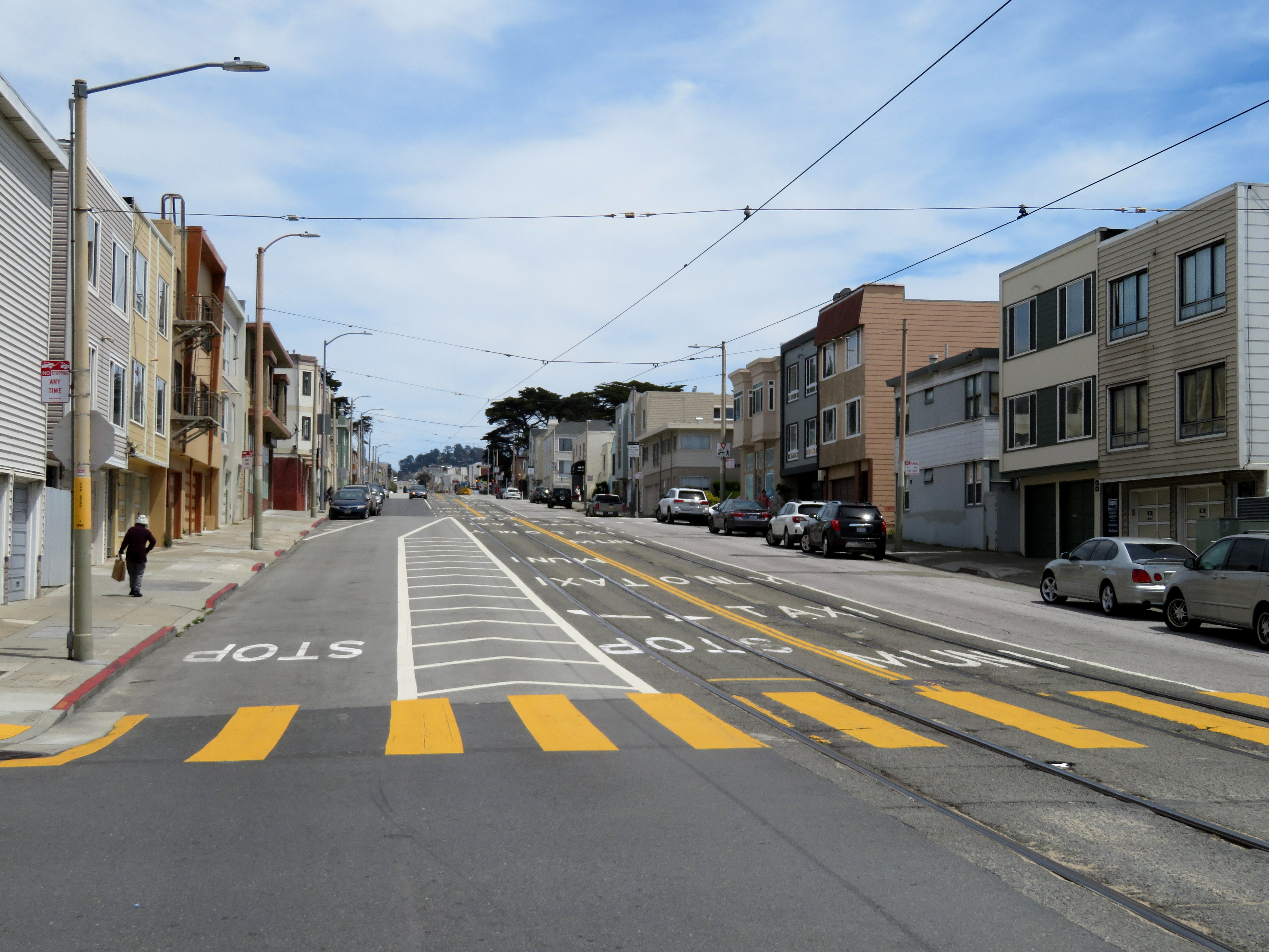 Outbound painted clear zone at Taraval and 40th Avenue in May 2018